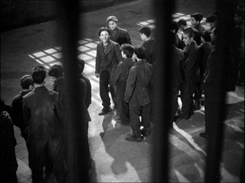 Screenshot from Sciuscià